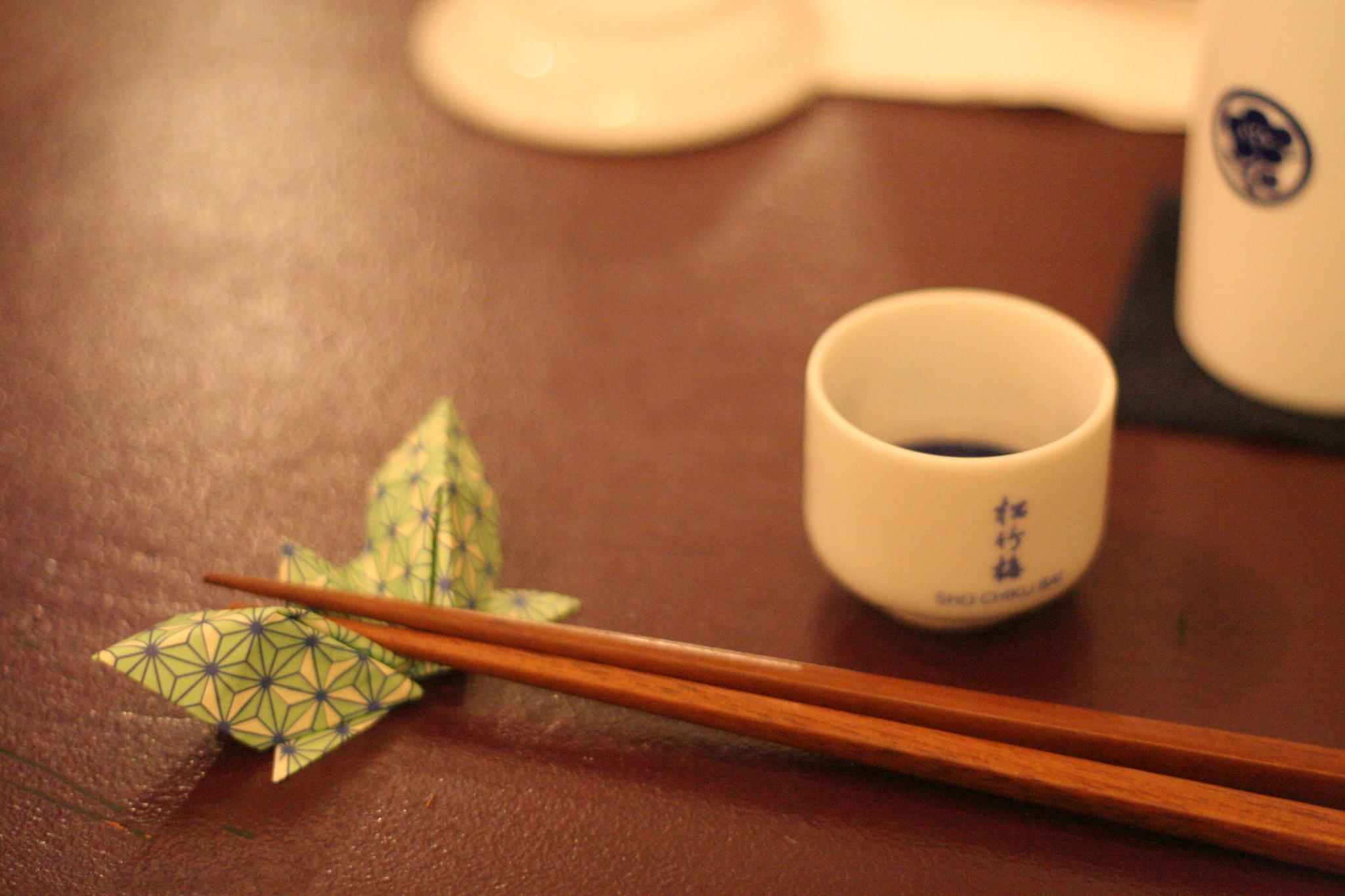 Sake, Chopsticks, Paper Rest